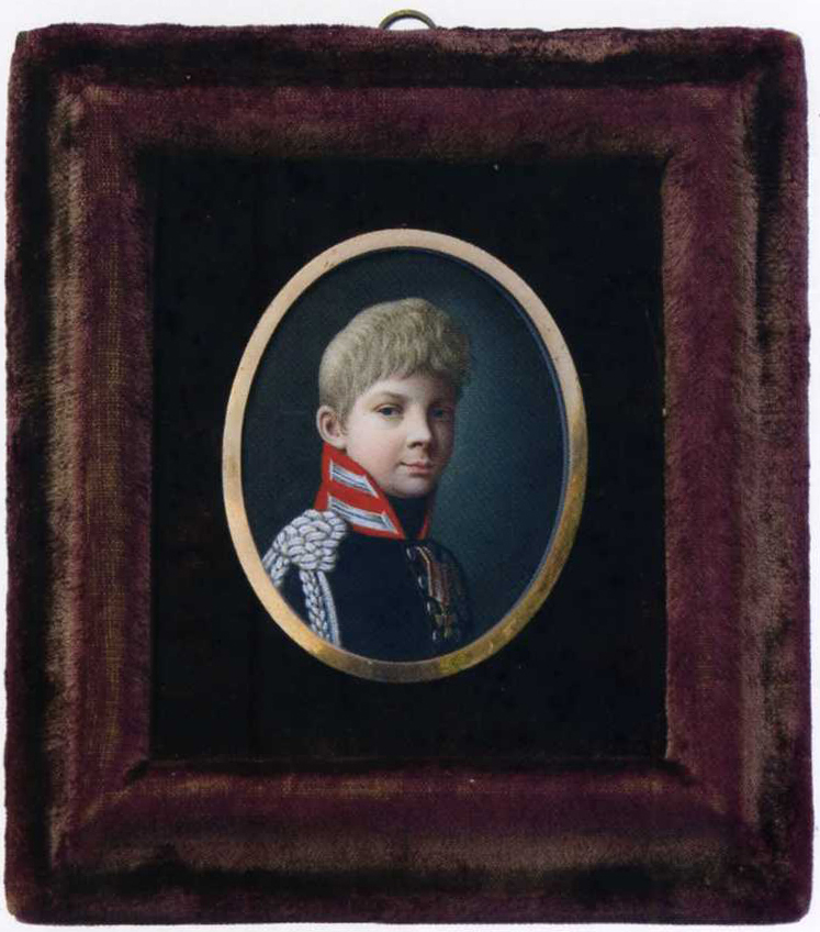 Prince Wilhelm (I) of Prussia